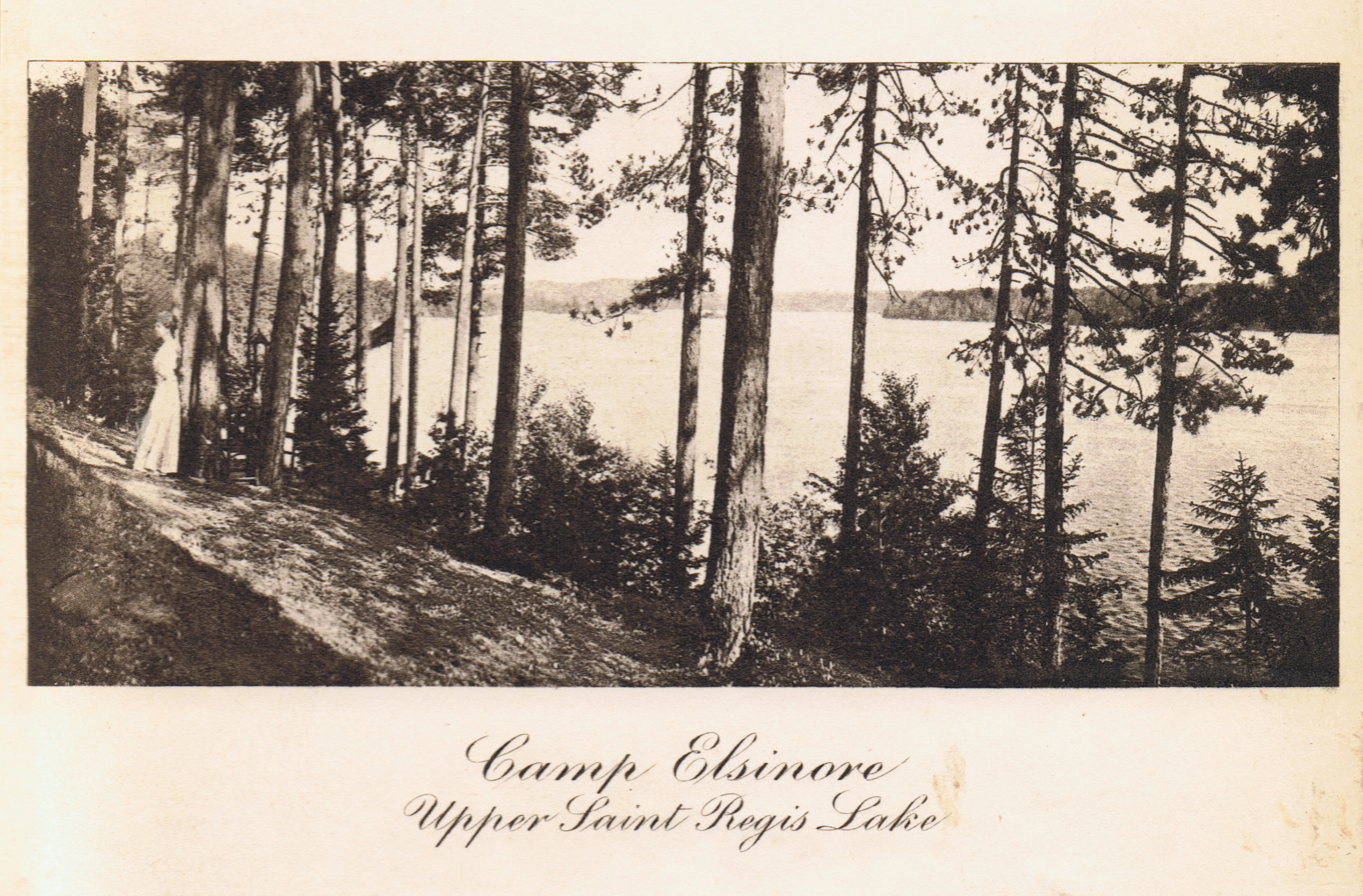 A letterhead or bookplate of "Camp Elsinore", summer home of Edward Hornor Coates and Florence Earle Coates. This image was pasted into a copy of Mrs. Coates' Poems Vol I (1916) inscribed to Amos Niven Wilder.